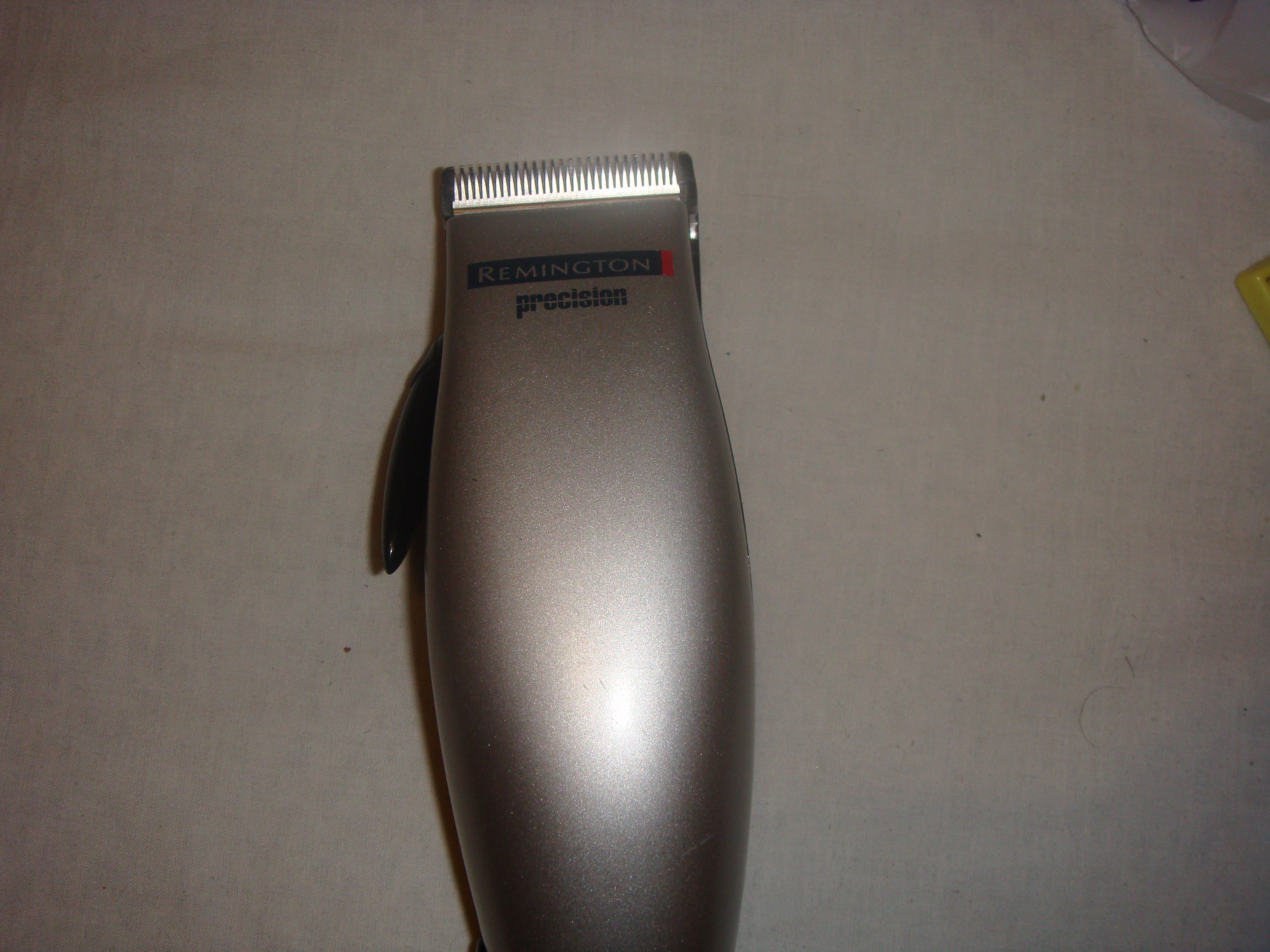 A haircut trimmer machine with no guard attached (cutting hair close to the skin).